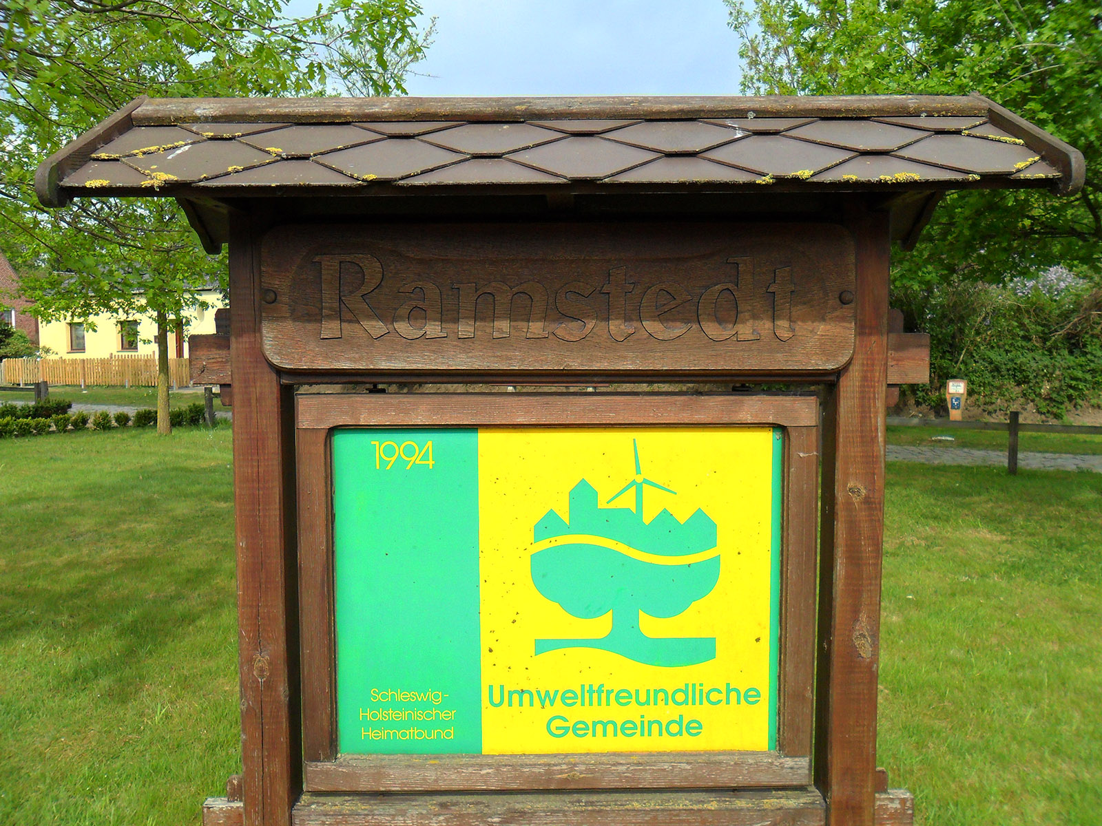 Ecology-Award in Ramstedt (Schleswig-Holstein, Germany).